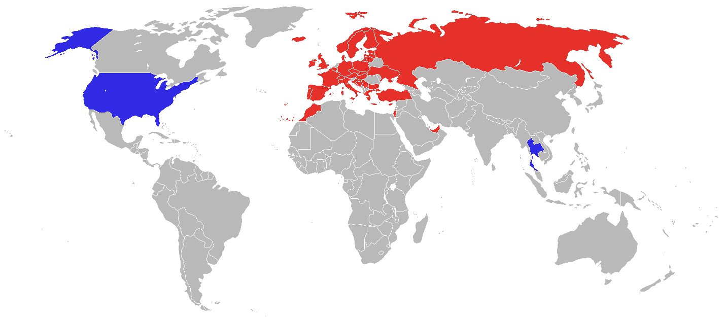 Norwegian route map